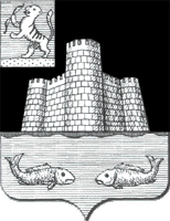 Seal of Fort-Shevchenko (Kazakhstan)